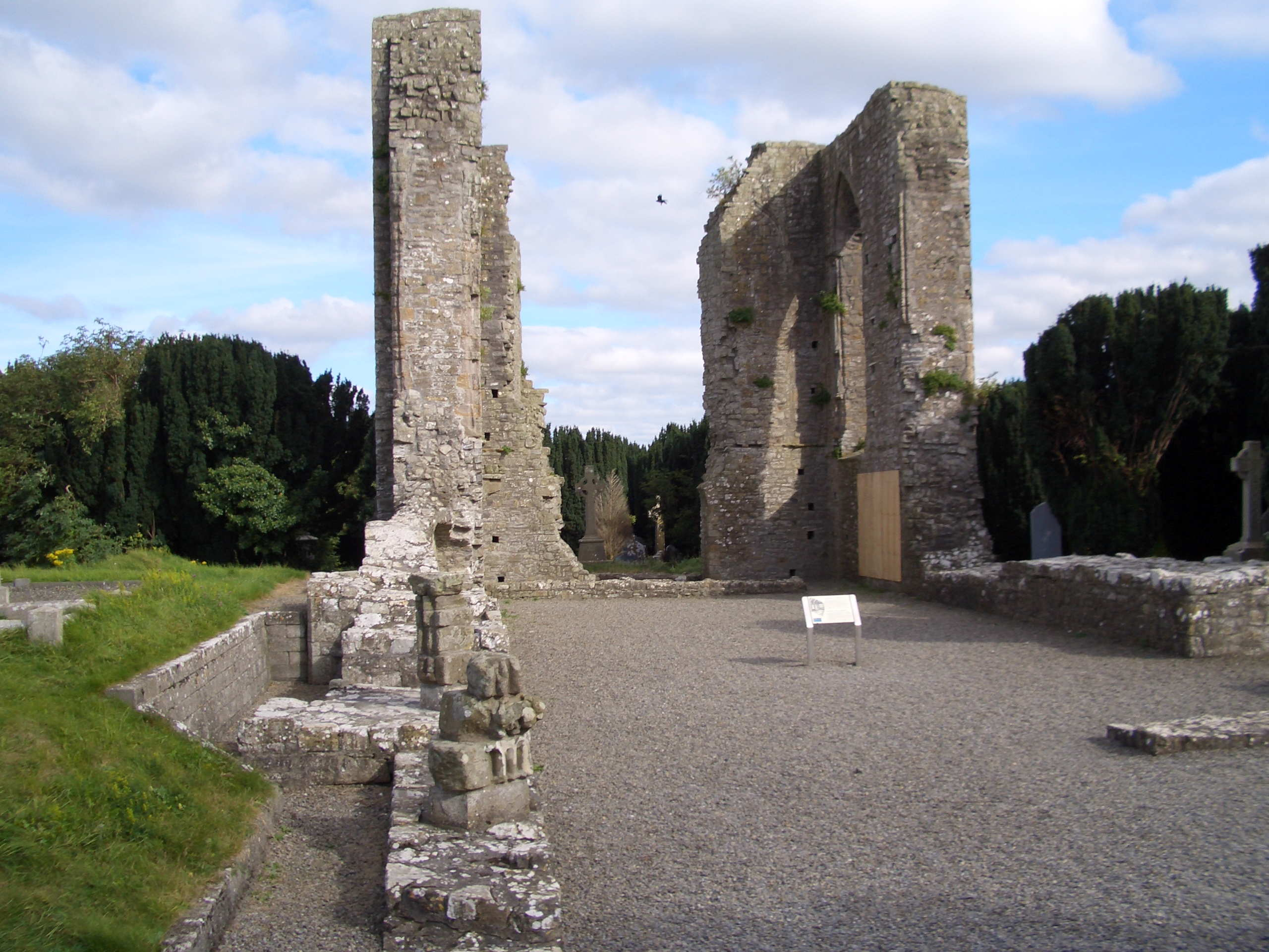 Photo from Trim, County Meath